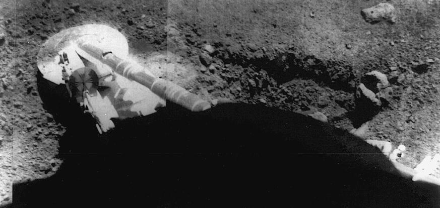 Image showing the Surveyor 5 lander that slid several feet while making a successful soft landing on the Moon's Mare Tranquillitatis. The footpad slipped and dug the trench visible to the right of the round pad in the image.